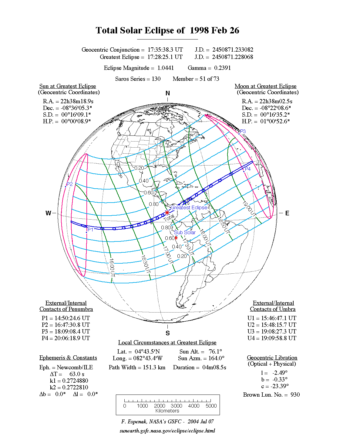 Total solar Eclipse